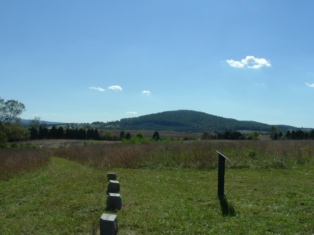 (Picture of Cedar Mountain, looking south from the approximate southwestern corner of The Wheatfield, by Matt Stewart, taken October 16, 2005.)